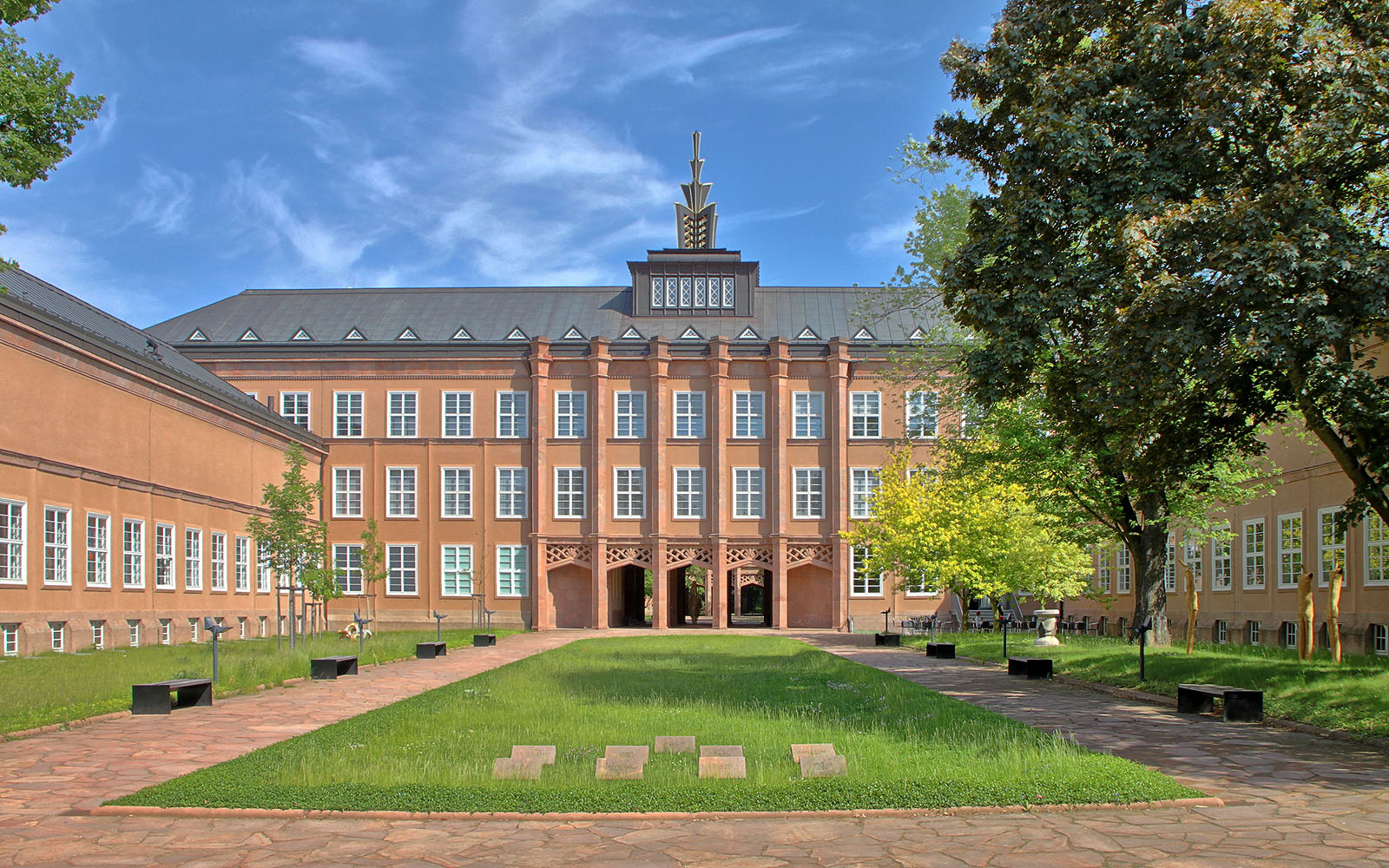 Grassimuseum in Leipzig